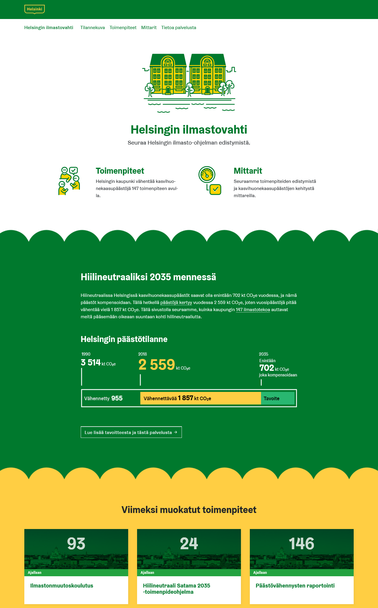 The front page of the Climate Watch monitoring tool of the city of Helsinki